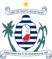 Coat of city of Cabo de Santo Agostinho, Pernambuco, Brazil